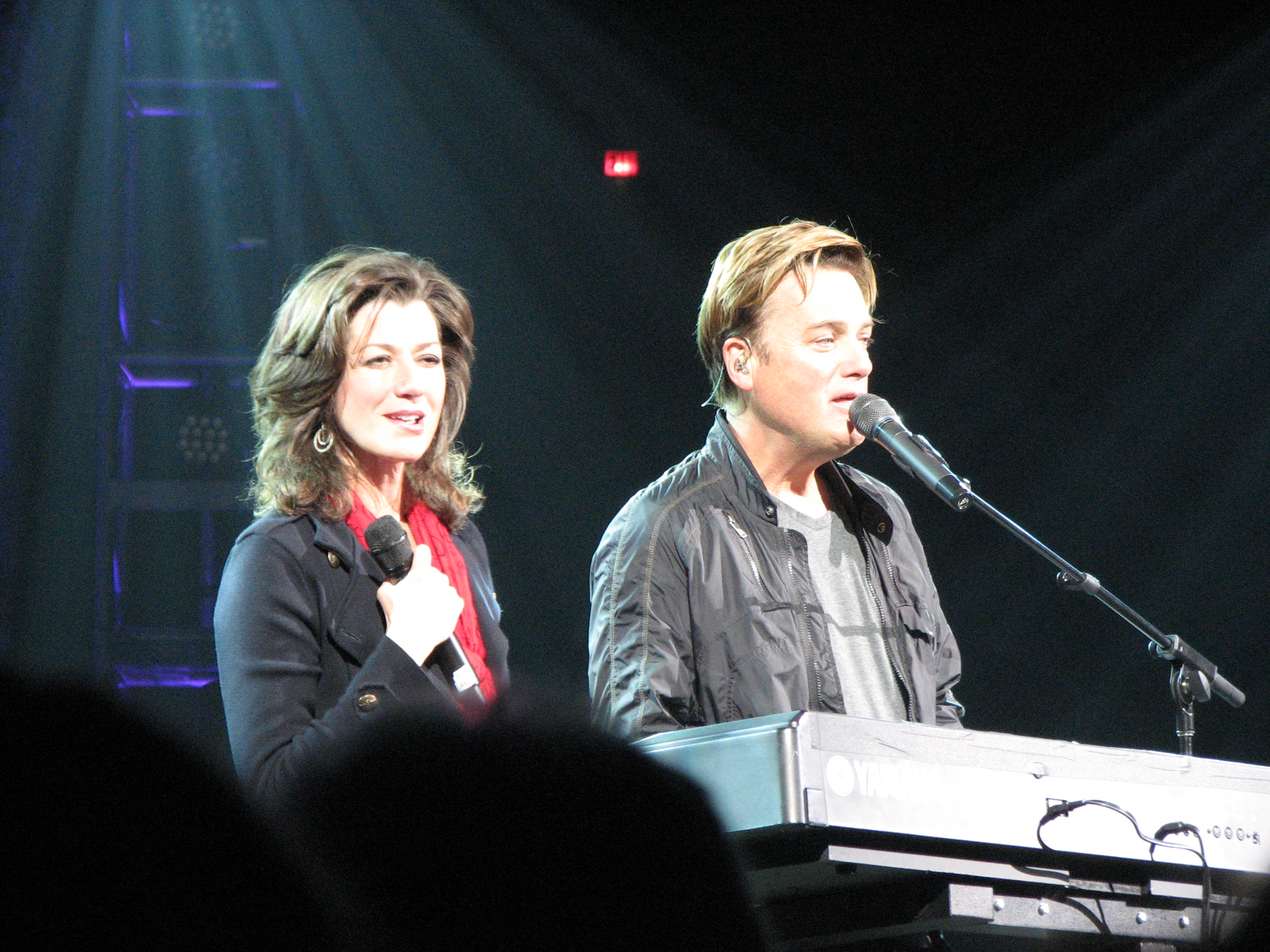 Amy Grant and Michael W. Smith performing at the Mabee Center in Tulsa, Oklahoma, United States